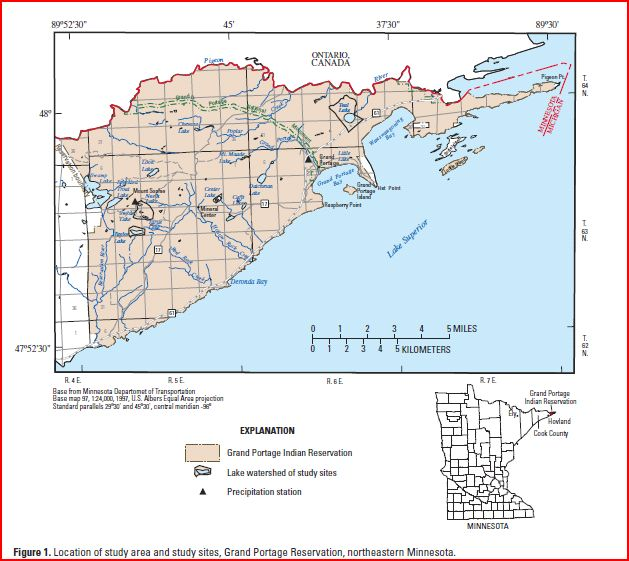 Grand Portage National Monument, Minnesota, map, in Northeastern Minnesota; prepared by the Minnesota Geological Survey and used by the USGS in, "Ground-Water/Surface-Water Interaction in Nearshore Areas of Three Lakes on the Grand Portage Reservation, Northeastern Minnesota, 2003-04"